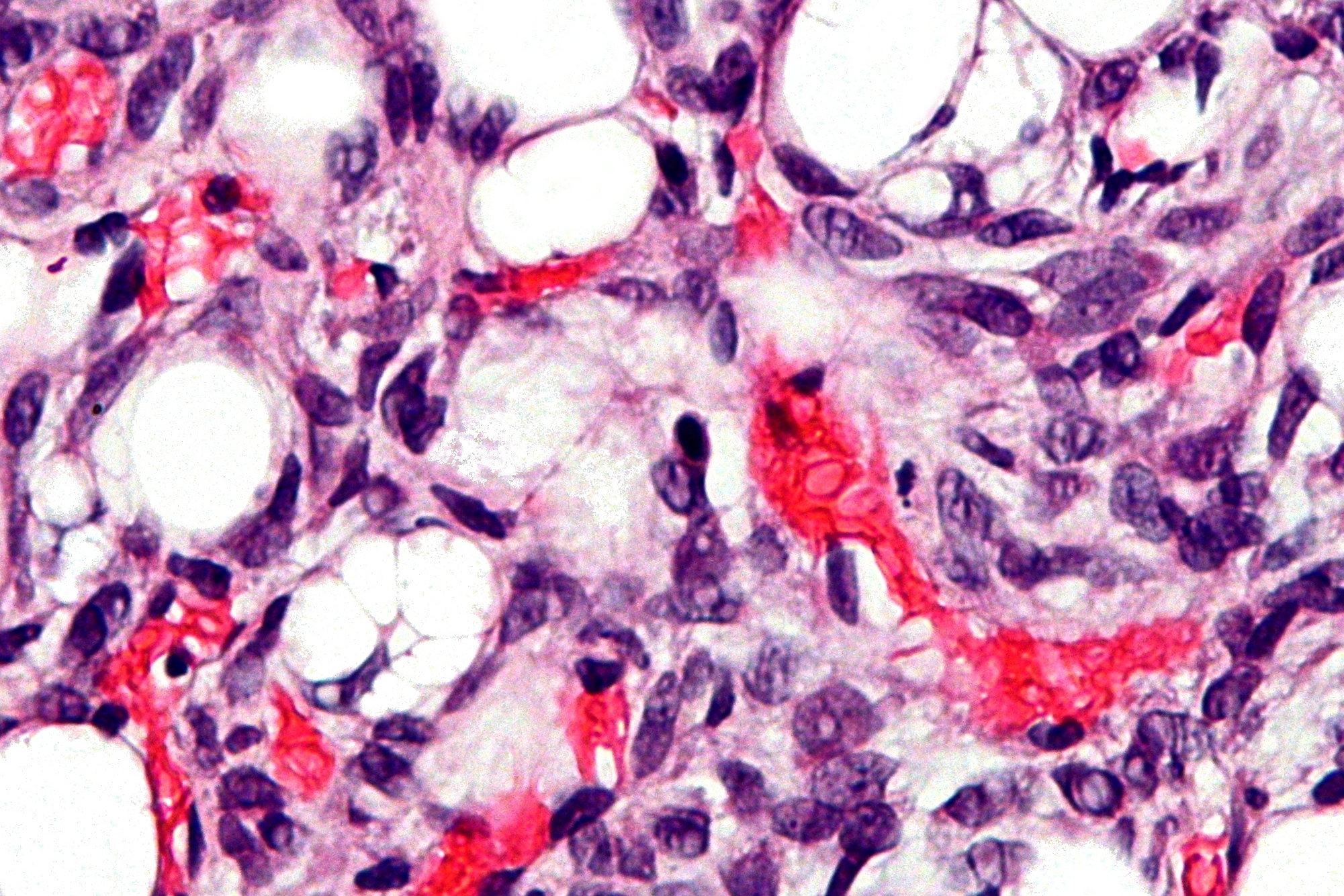 Very high magnification micrograph of a dedifferentiated liposarcoma. H&E stain. Related images Intermed. mag. High mag. Very high mag. Very high mag.